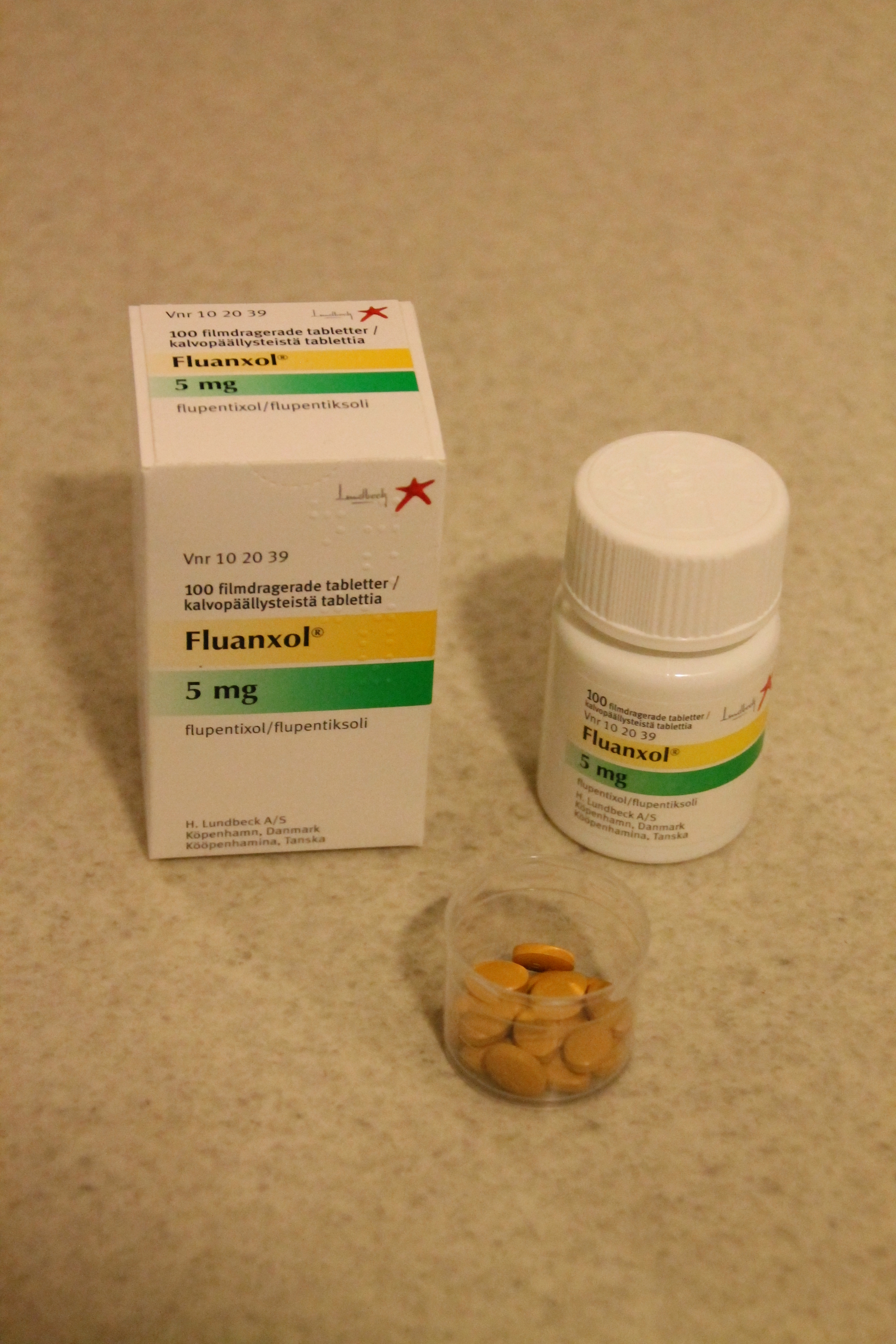 Fluanxol (flupentixol) 5mg bottle, pack and tablets.